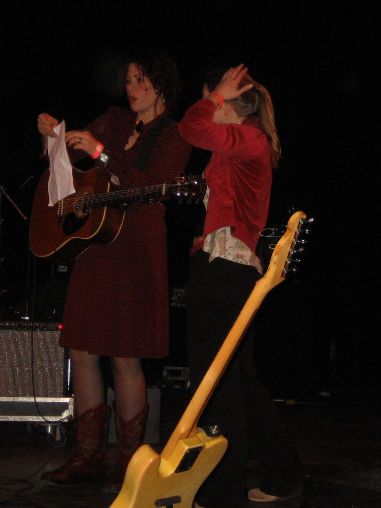 Dayna Kurtz @ Blue Highways Festival 2008 in Utrecht, Netherlands